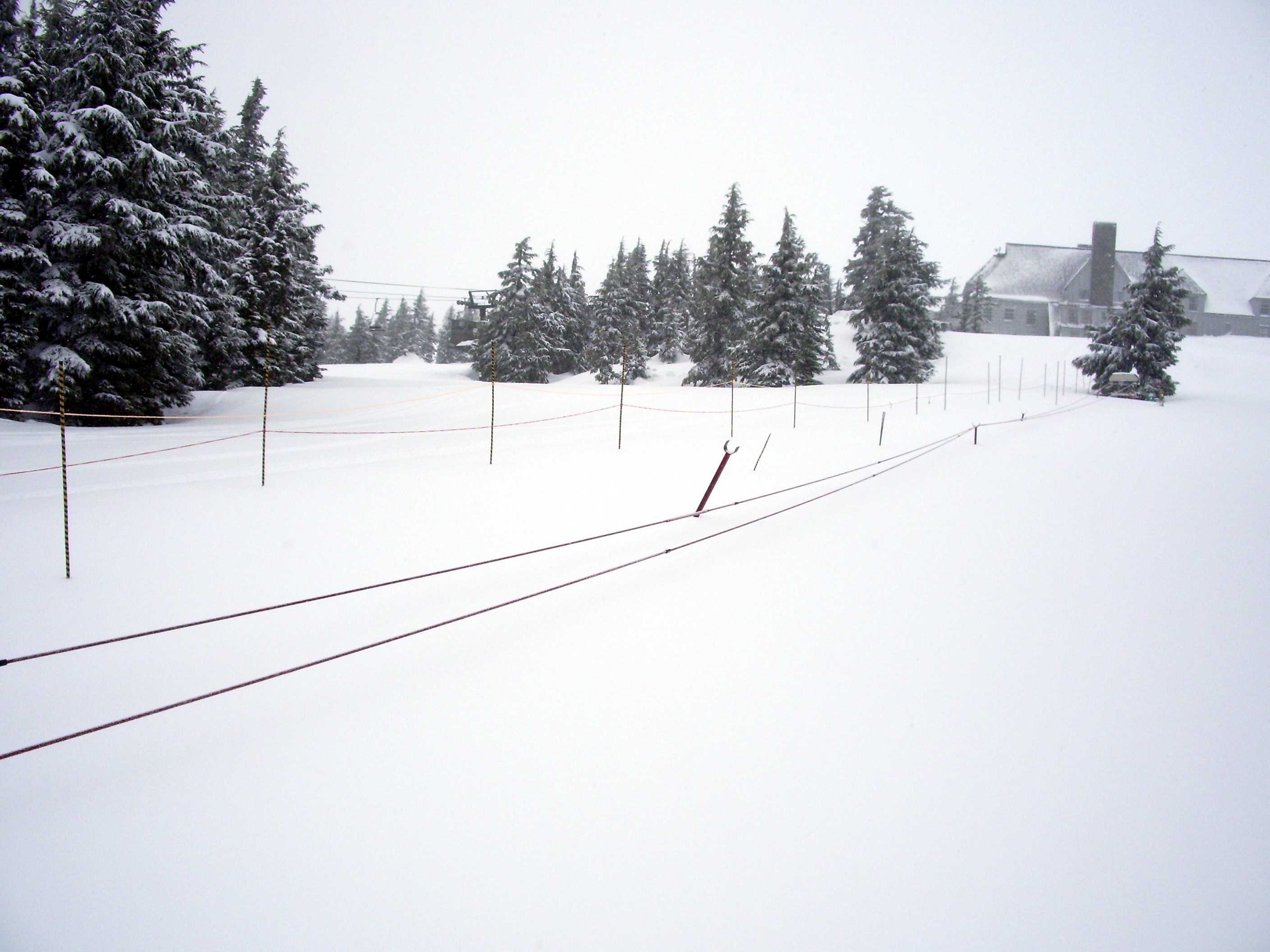 Example of modern rope tow on bunny hill. This electrically driven rope tow has small hand grips to minimize "slippage". The line supports are removed for operation; after hours they minimize burial of the line by new snow and aid in surface grooming. (The rope fence separates the rope tow from a ski run.)